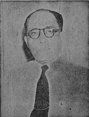 Portrait of Teuku Daudsjah.